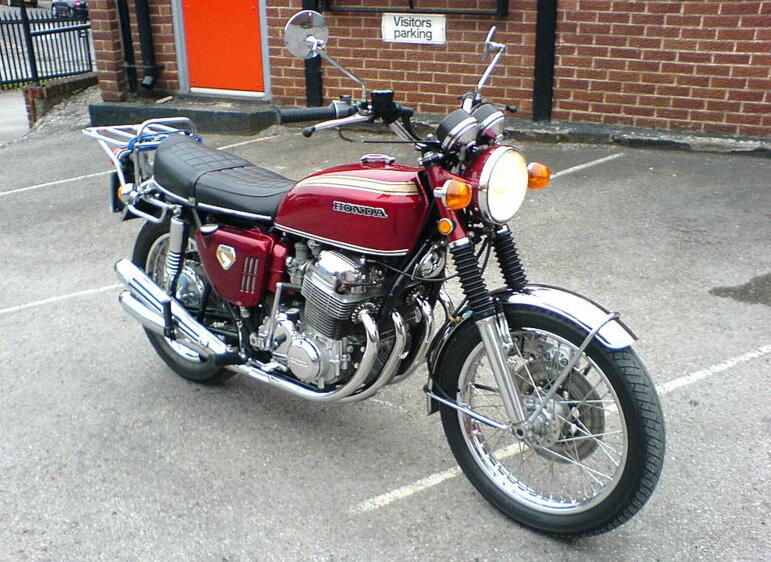 Original art by Graham Sutton UK. All rights released Nov. 2006, including right to modify. I have cropped the image to place more focus on the motorbike. (Orig.: Image:CB750.JPG found on Wikipedia). --Evb-wiki 02:25, 5 March 2007 (UTC)